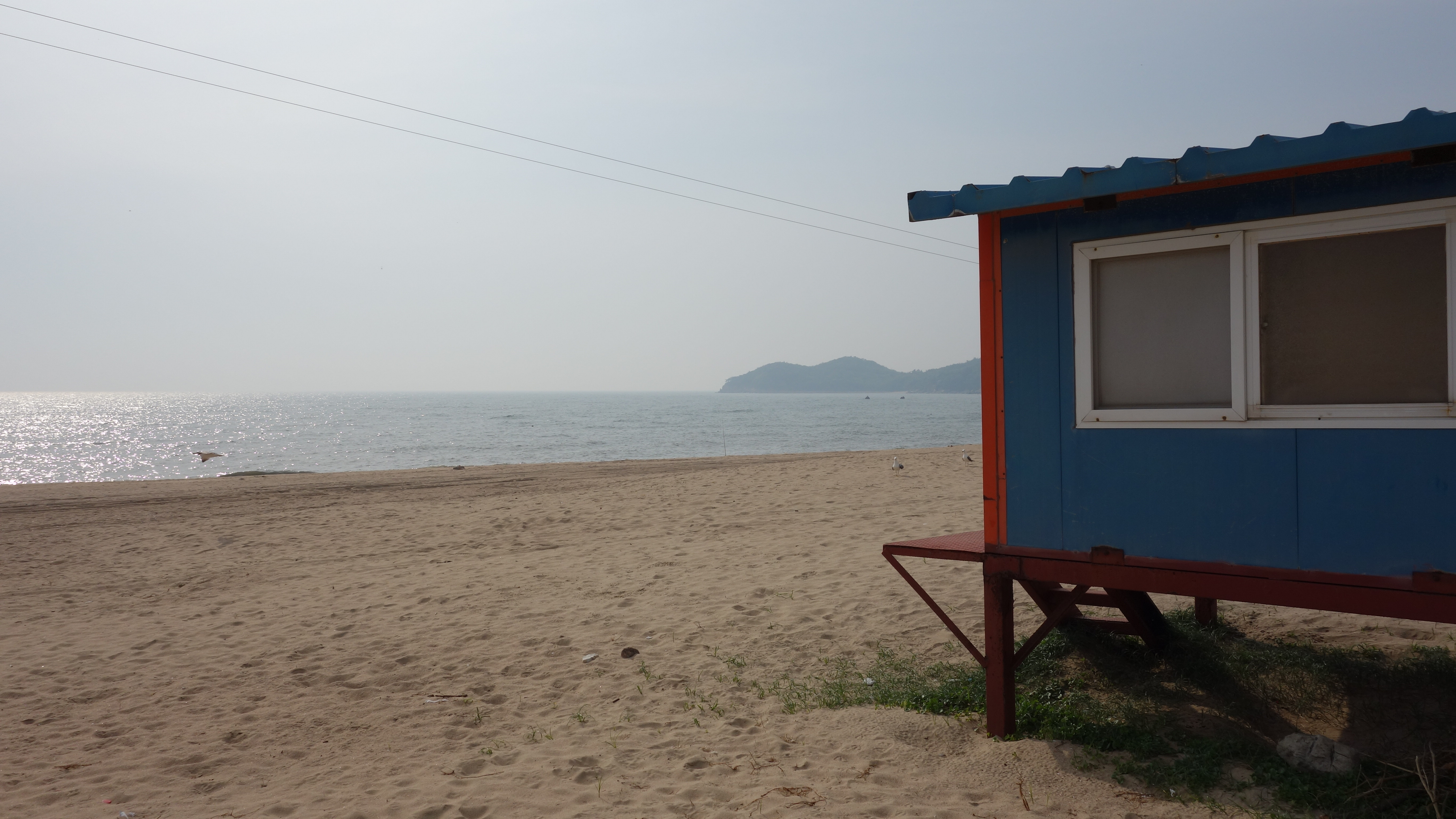 Cabana at Hanagae Beach, Muuido, near Incheon, South Korea